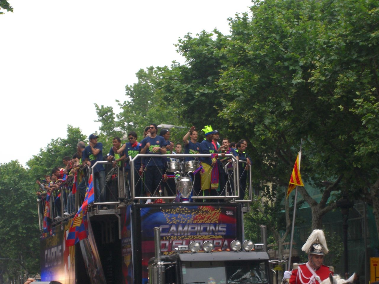 Futbol Club Barcelona's players